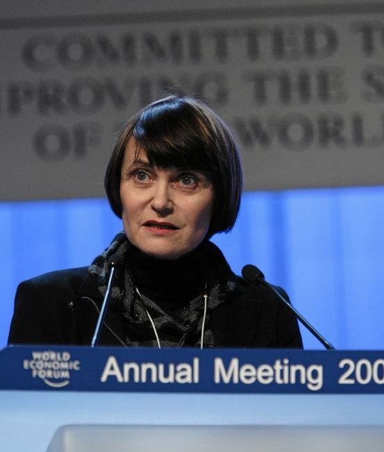 DAVOS/SWITZERLAND, 24JAN07 - Micheline Calmy-Rey, President of the Swiss Confederation and Federal Councillor of Foreign Affairs, Switzerland, welcomes the participants at the Annual Meeting 2007 of the World Economic Forum in Davos, Switzerland, January 24, 2007.